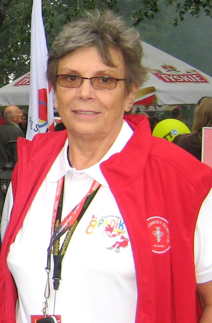 Barbara Hermel-Niemczyk, former volleyball player from Poland